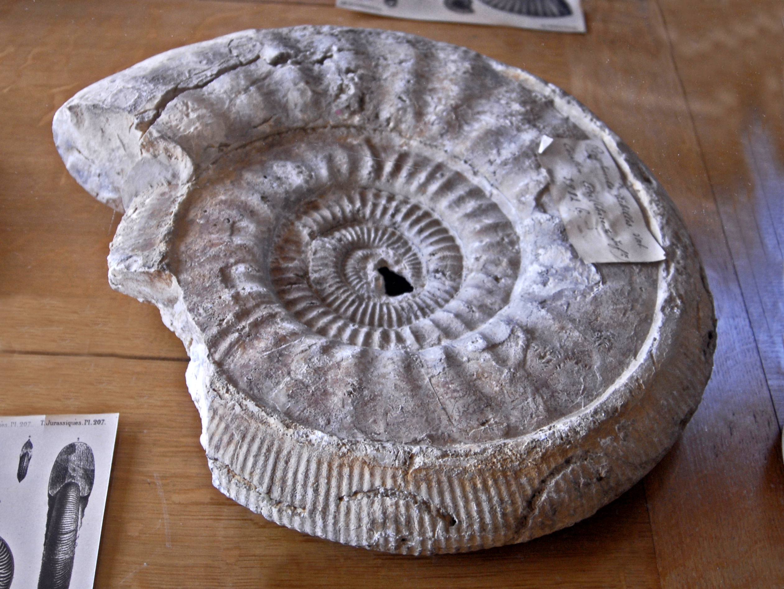 Fossil of Lithacoceras achilles from France, on display at Gallery of Paleontology and Comparative Anatomy, Paris.